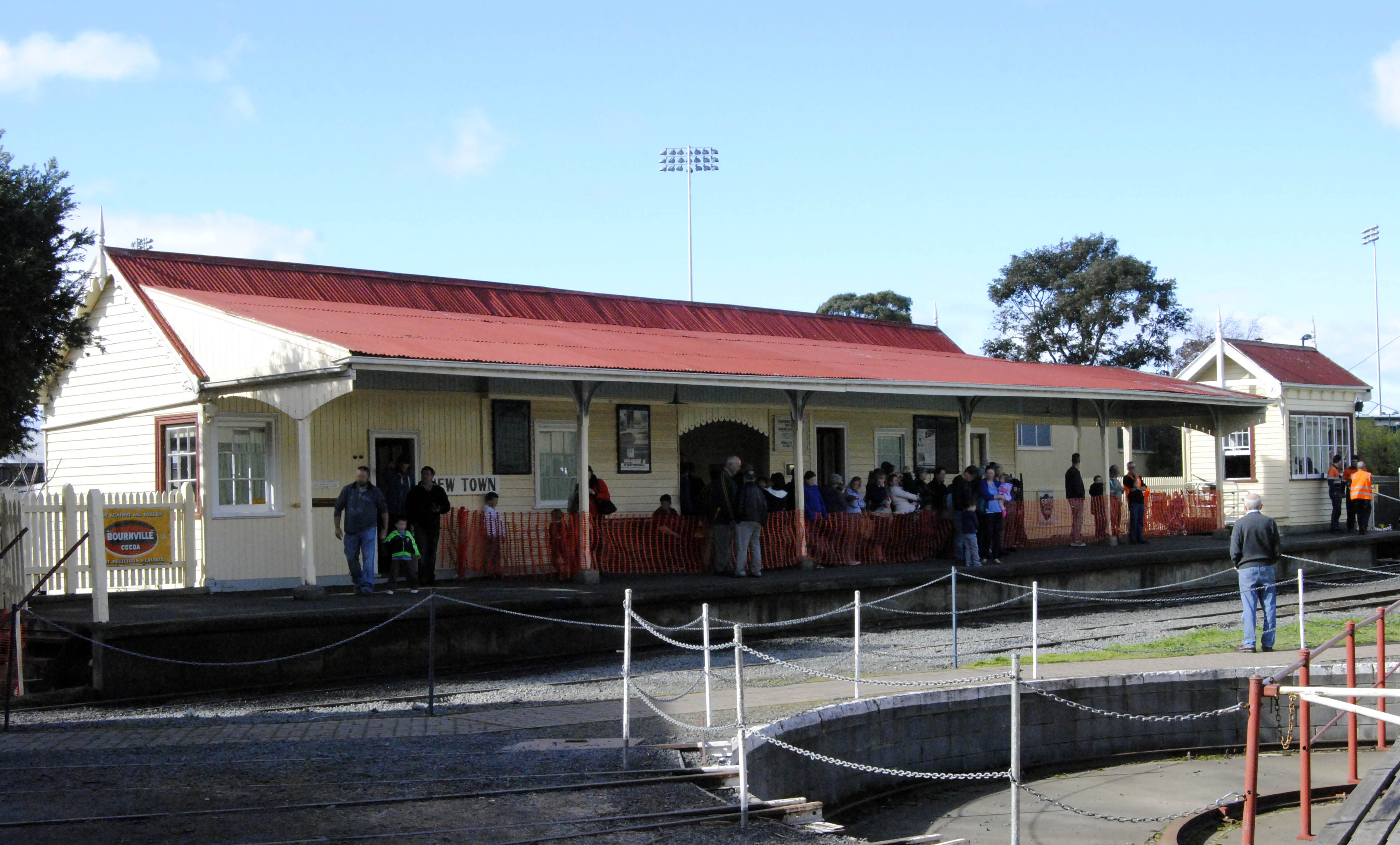 A photo of the Tasmanian Transport Museum, including platform, station building, signal box and turntable, during the BRMA Model Train Show on August 8th, 2013. Other information Taken with Nikon D3000, cropped in Adobe PhotoShop CS6